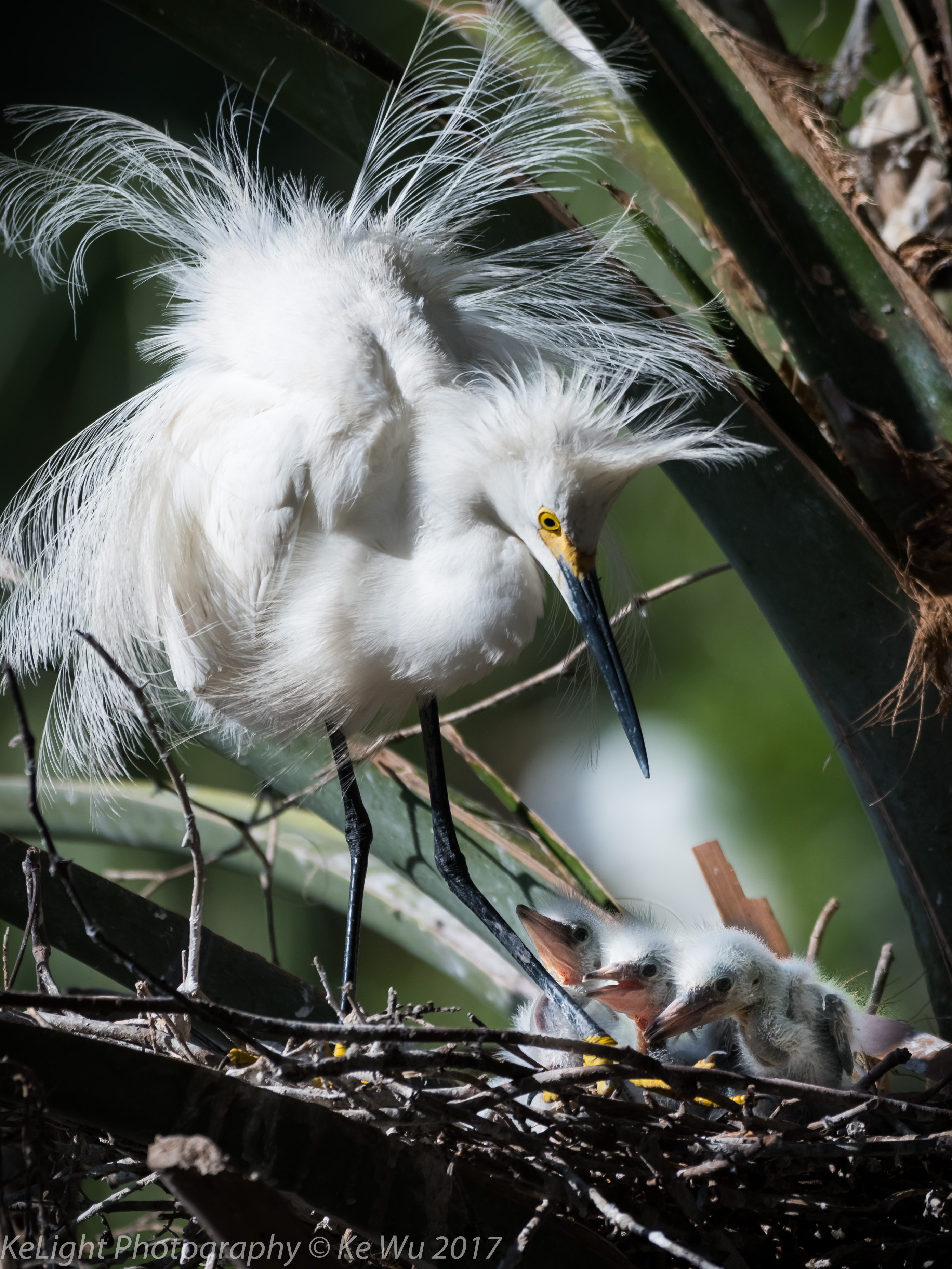 A snowy egret and its hatchlings in St. Augustine, FL.